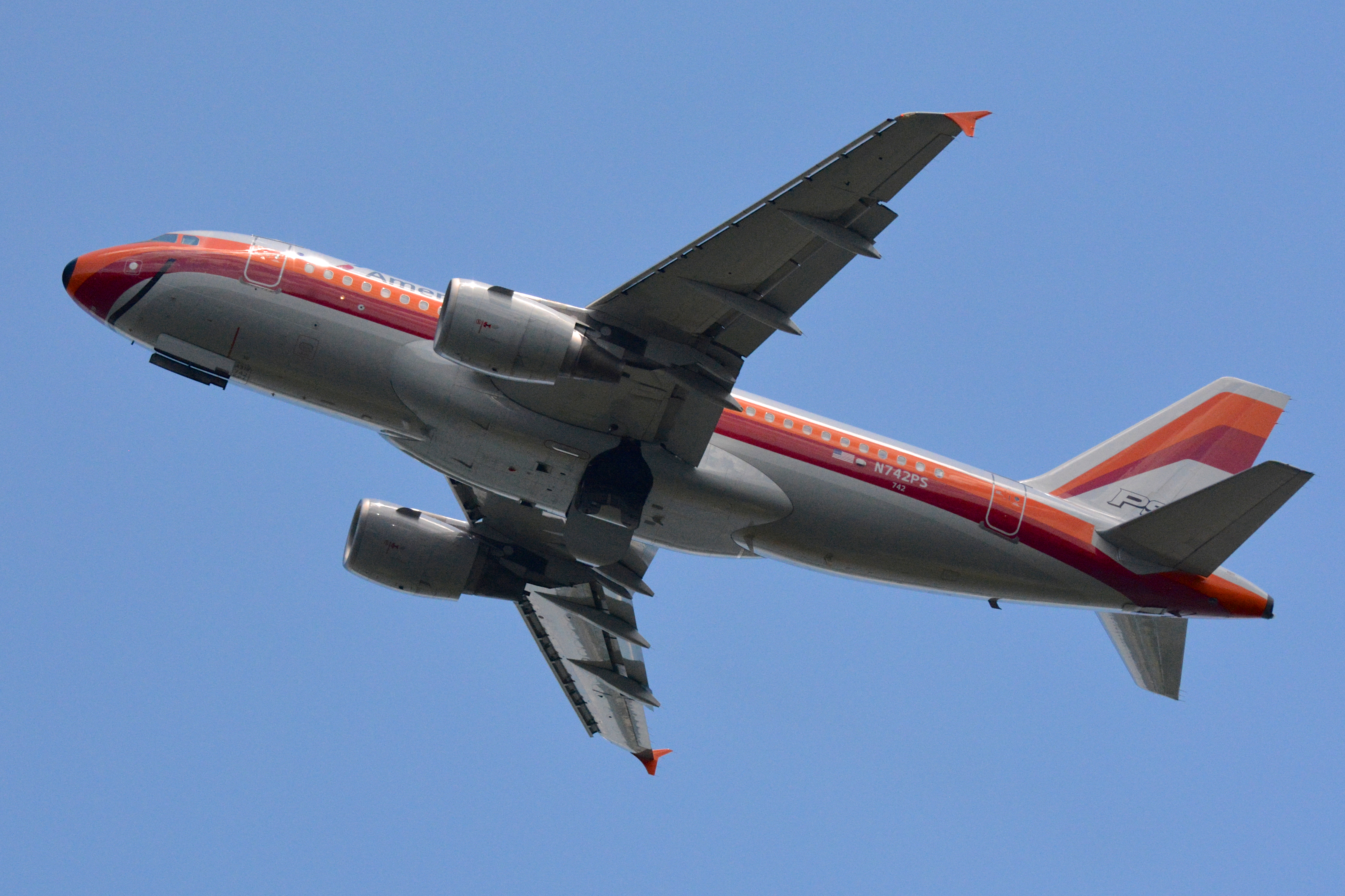 American Airlines Airbus A319 in retro PSA livery.